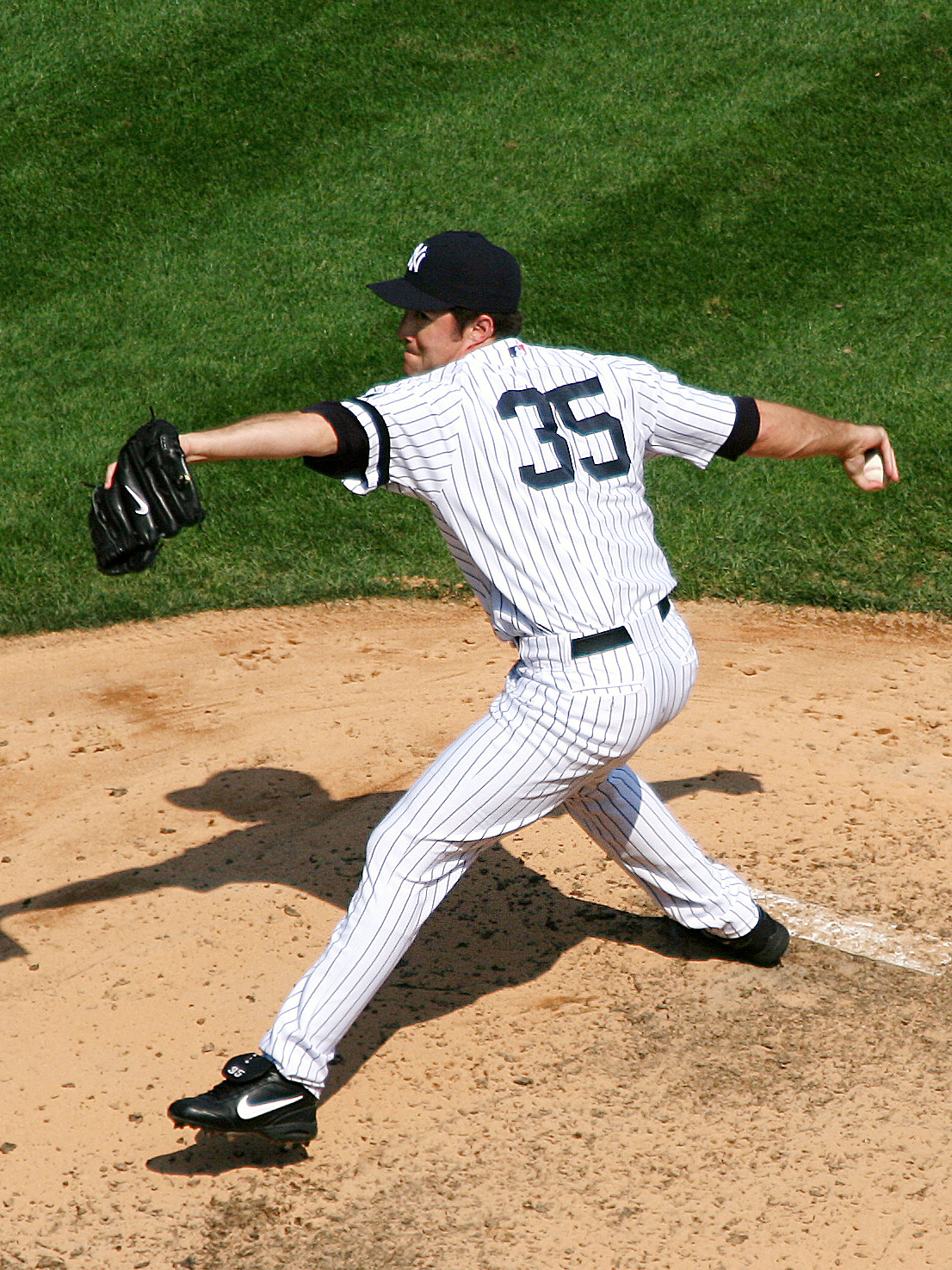 Photograph of Mike Mussina taken by Rich Hauck at Yankee Stadium on 9/3/07 when he played in relief for Roger Clemens. 16:19, 13 April 2008 . . Mandalatv . . 1,106×1,475 (1.11 MB)